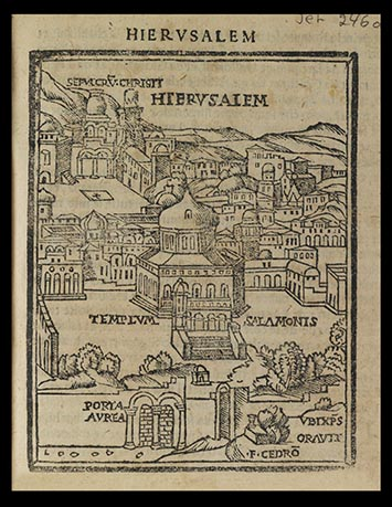 Jerusalem from a book published in Venice, 1555.